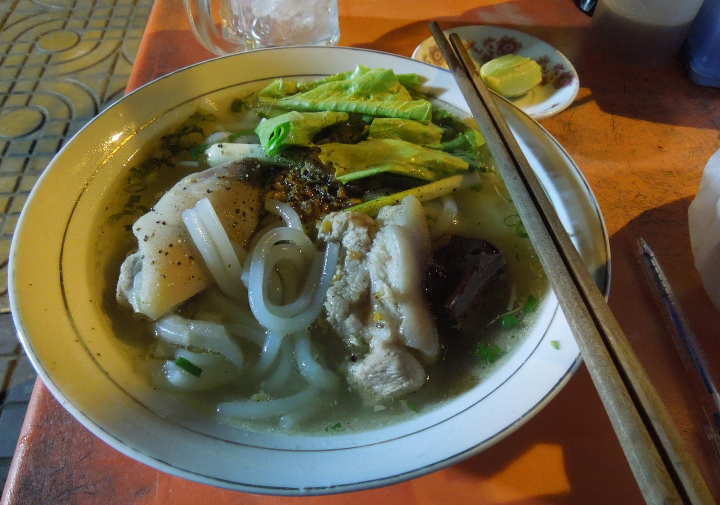 Vietnamese cuisine "Banh Canh" at Nga Bay town, Dec 2015